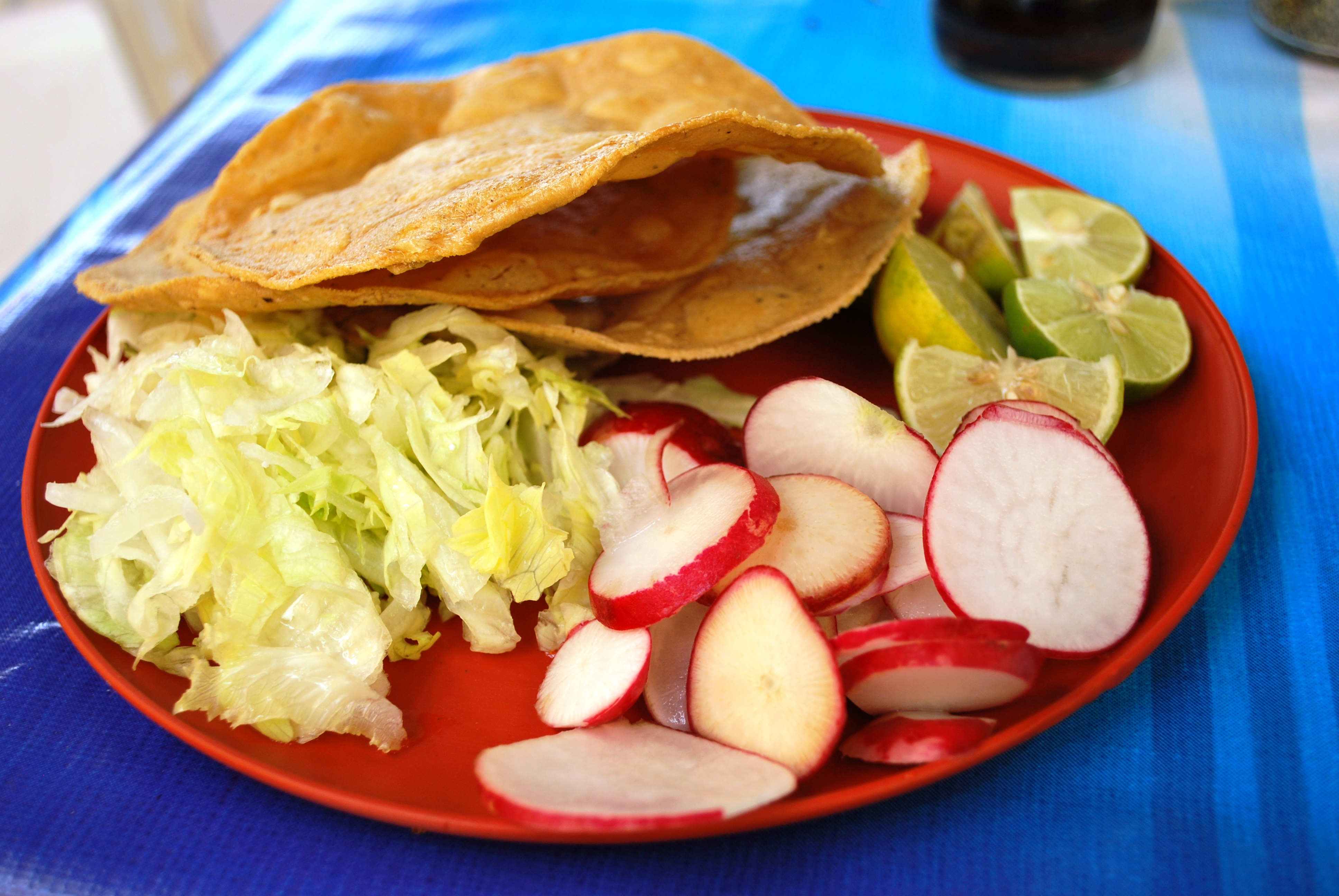 Plate with condiments for pozole to be added to taste to this soup/stew